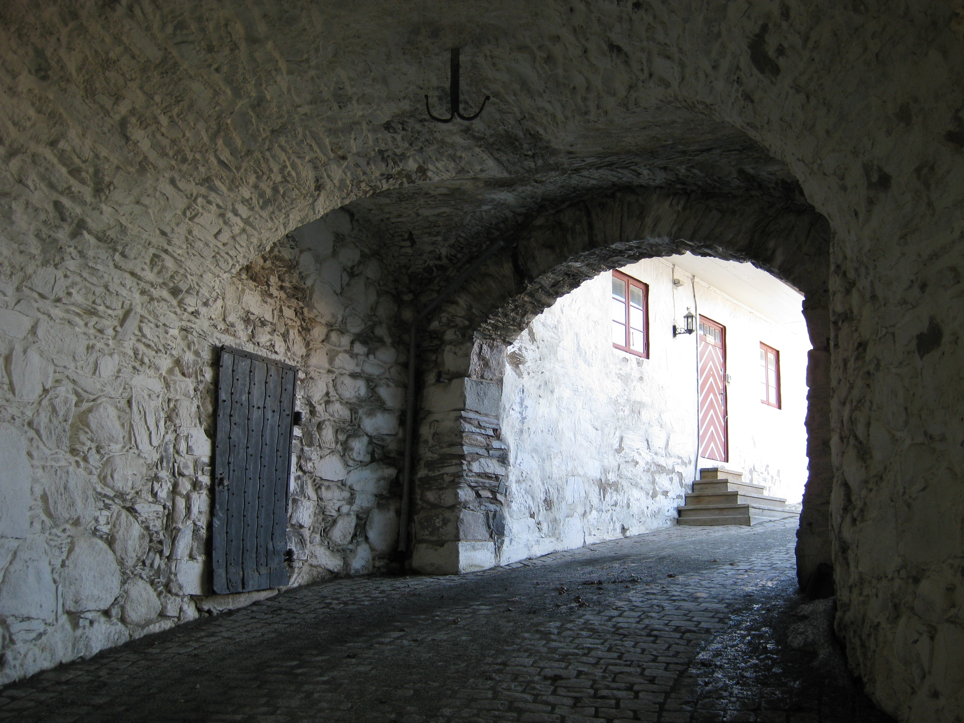 The Entrance tunnel at Kongsvinger fortress in Norway